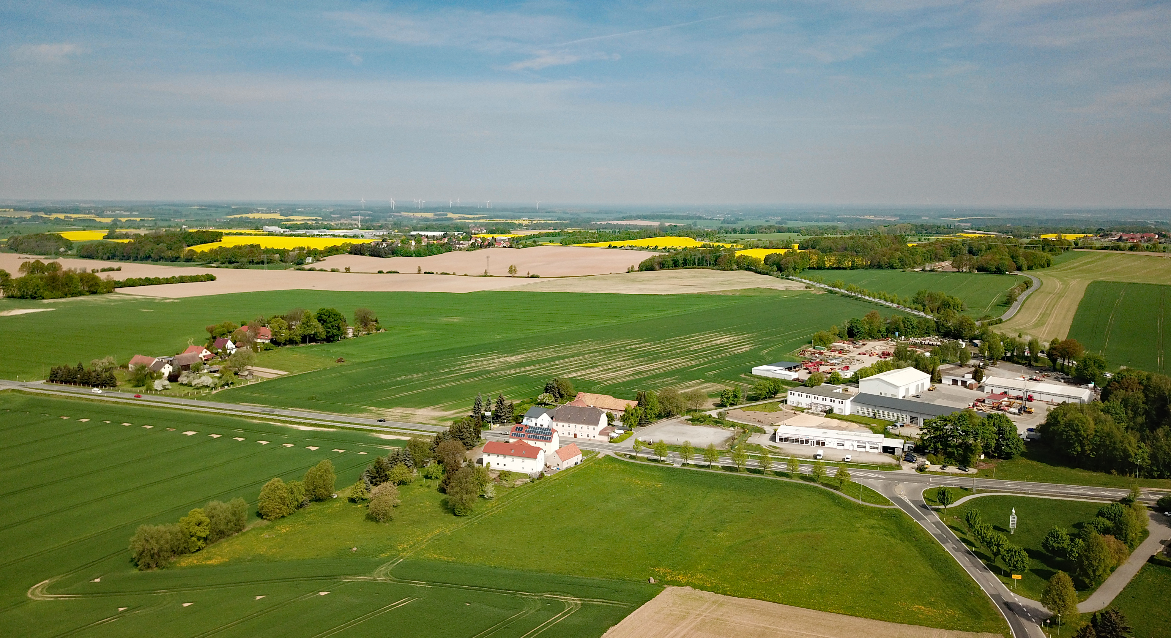 Dreistern (Göda, Saxony, Germany) Hornjoserbsce: Powětrowy wobraz Třoch Hwězdow